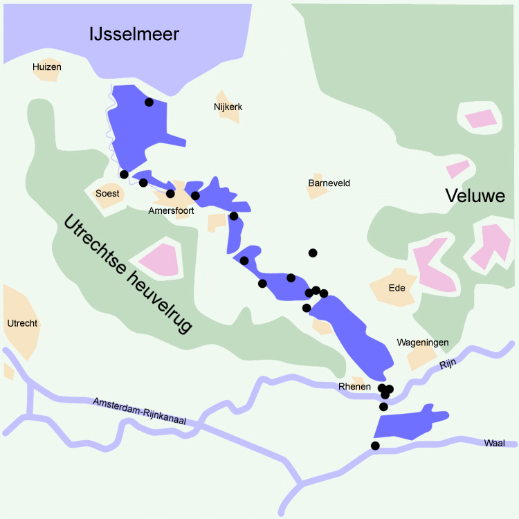 "Grebbelinie" (military defensive line) in the Netherlands. The line was used during the German invasion in may 1940 WWII although the inundation areas could not be flooded because the pumping station wasn't finished yet. Disclaimer: The exact location of the forts and inundation areas may differ from reality to a slight extent. Made by Niels Bosboom.